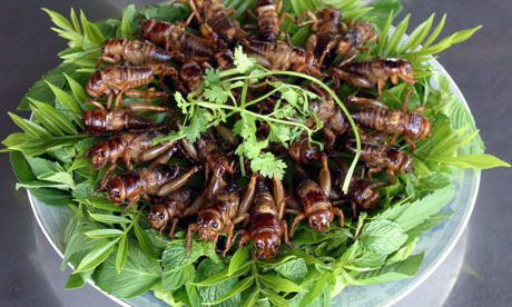 Fried crickets, a delicacy.